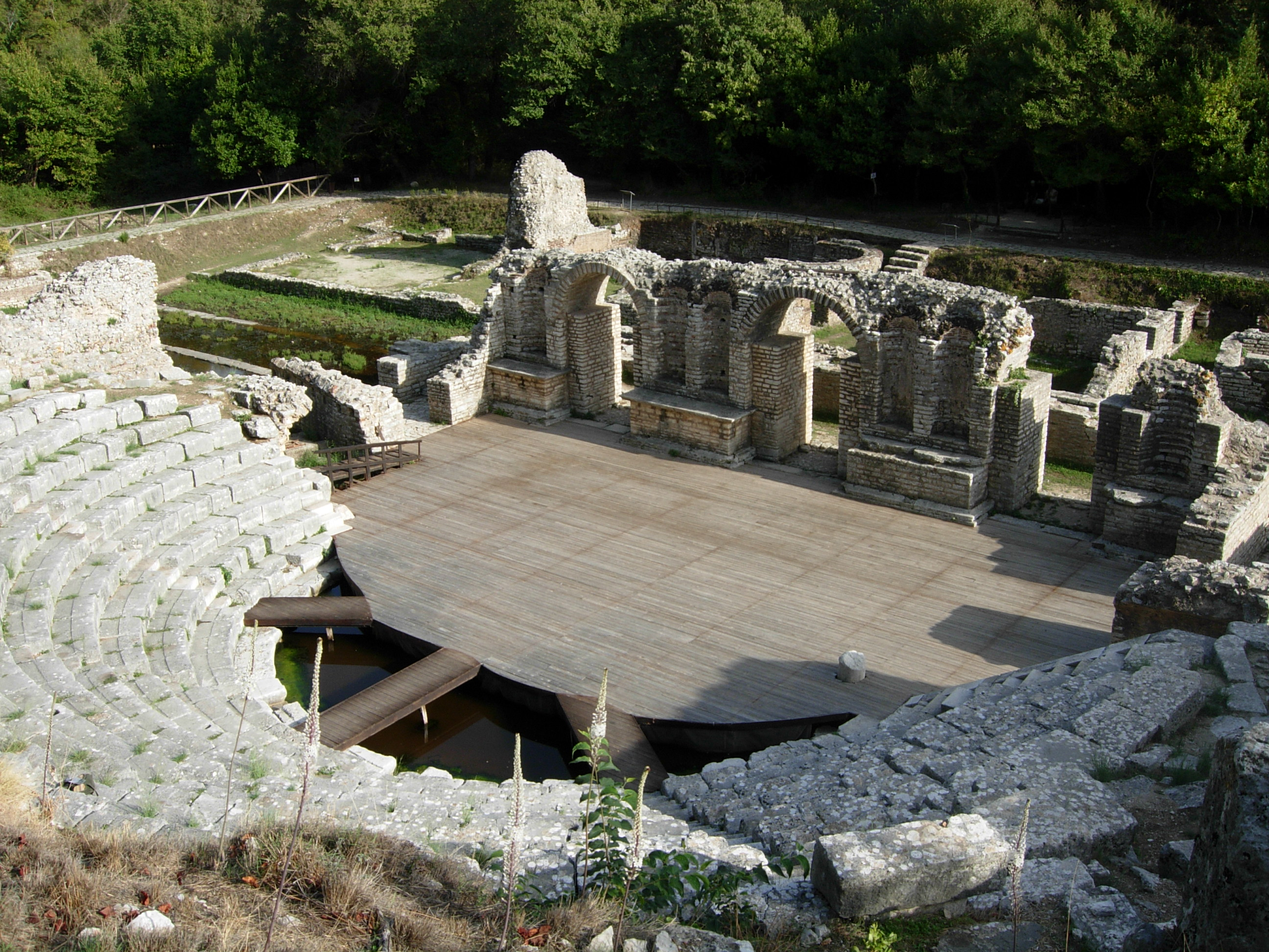 Ancient theatre in Butrint, Albania